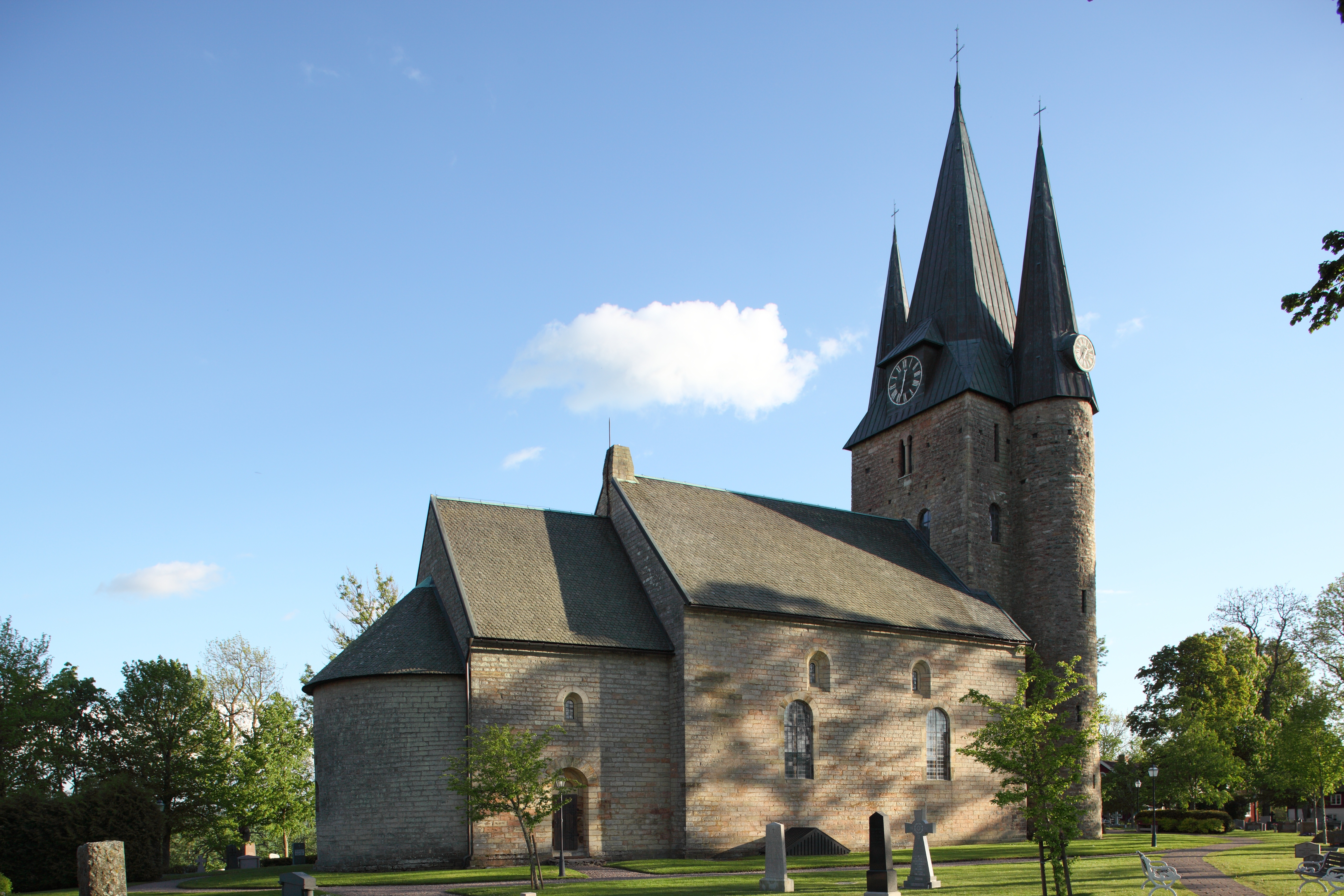 Husaby kyrka. A church near Lidköping